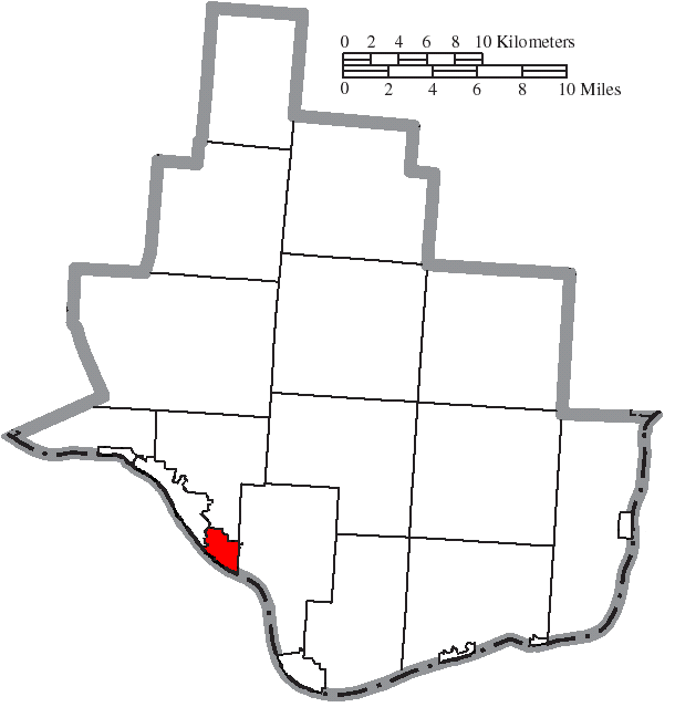 Map of the municipal and township boundaries of Lawrence County, Ohio, United States, as of the 2000 census, with the location of the village of Coal Grove highlighted. Township borders are shown only in unincorporated areas in order to differentiate incorporated and unincorporated areas more clearly.